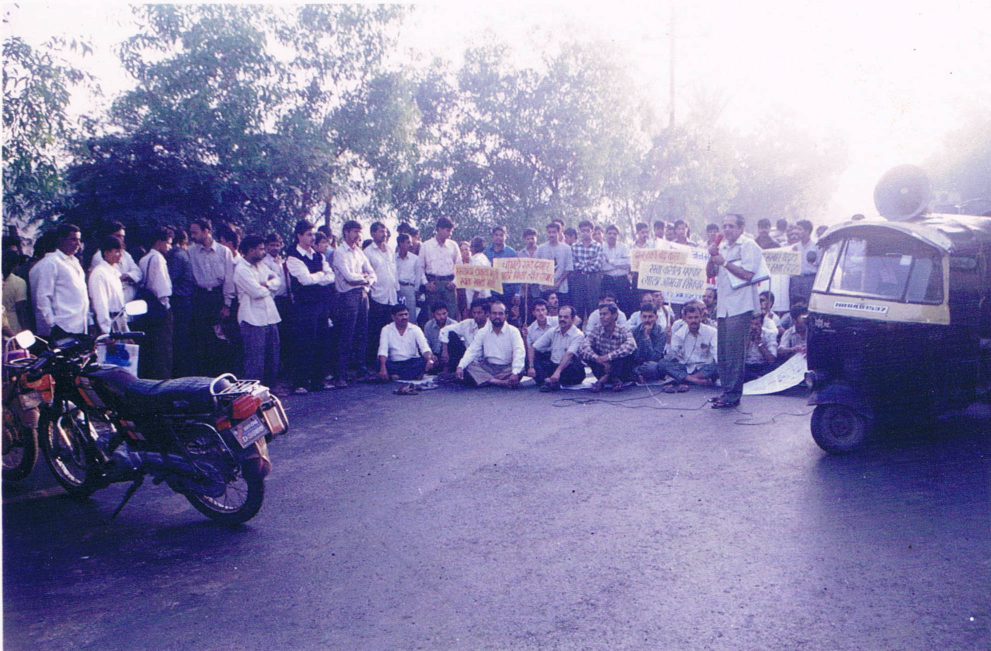 Rasta Roko